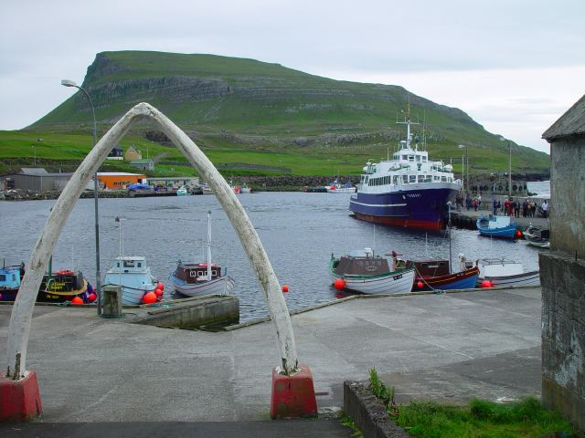 Nolsoy Harbor Photo taken in July 2002 by Mike Hansen